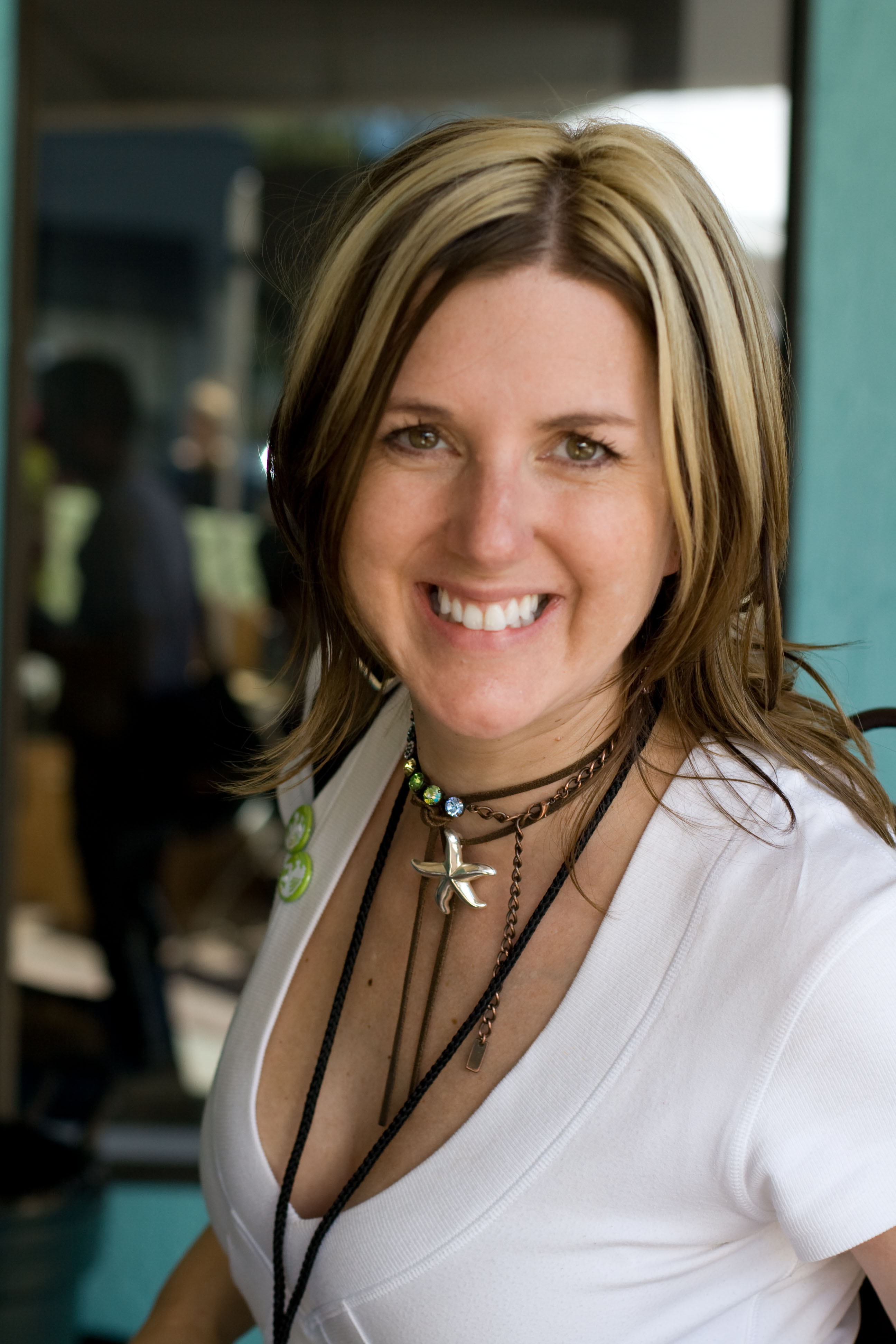 Tara Hunt at BarCampBlock in August 2007